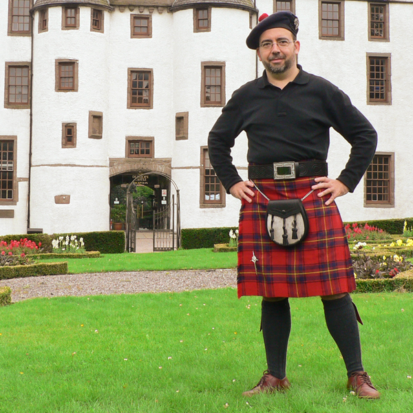 Wearing the kilt in Dudhope Castle. Oliver tartan.